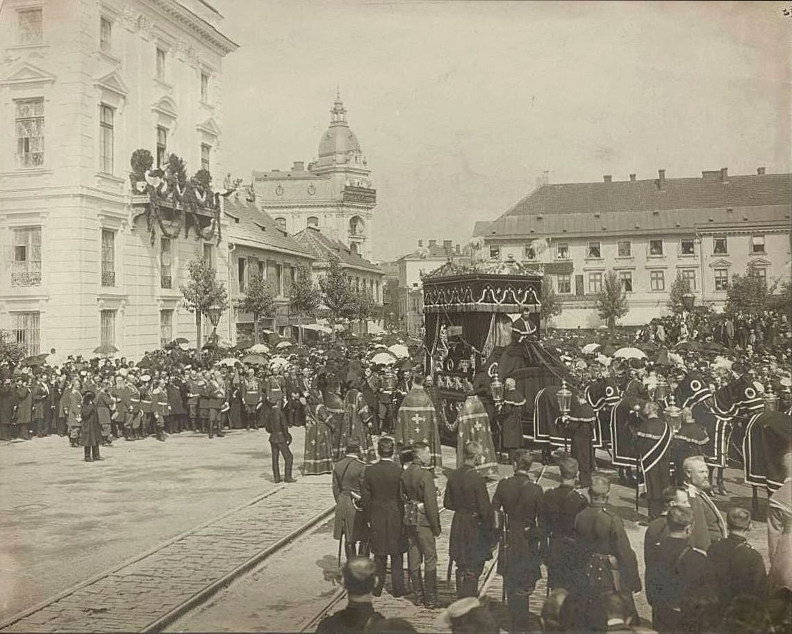 Funeral of Sokrates Starynkiewicz. Theatre Square in Warsaw 26 August 1902